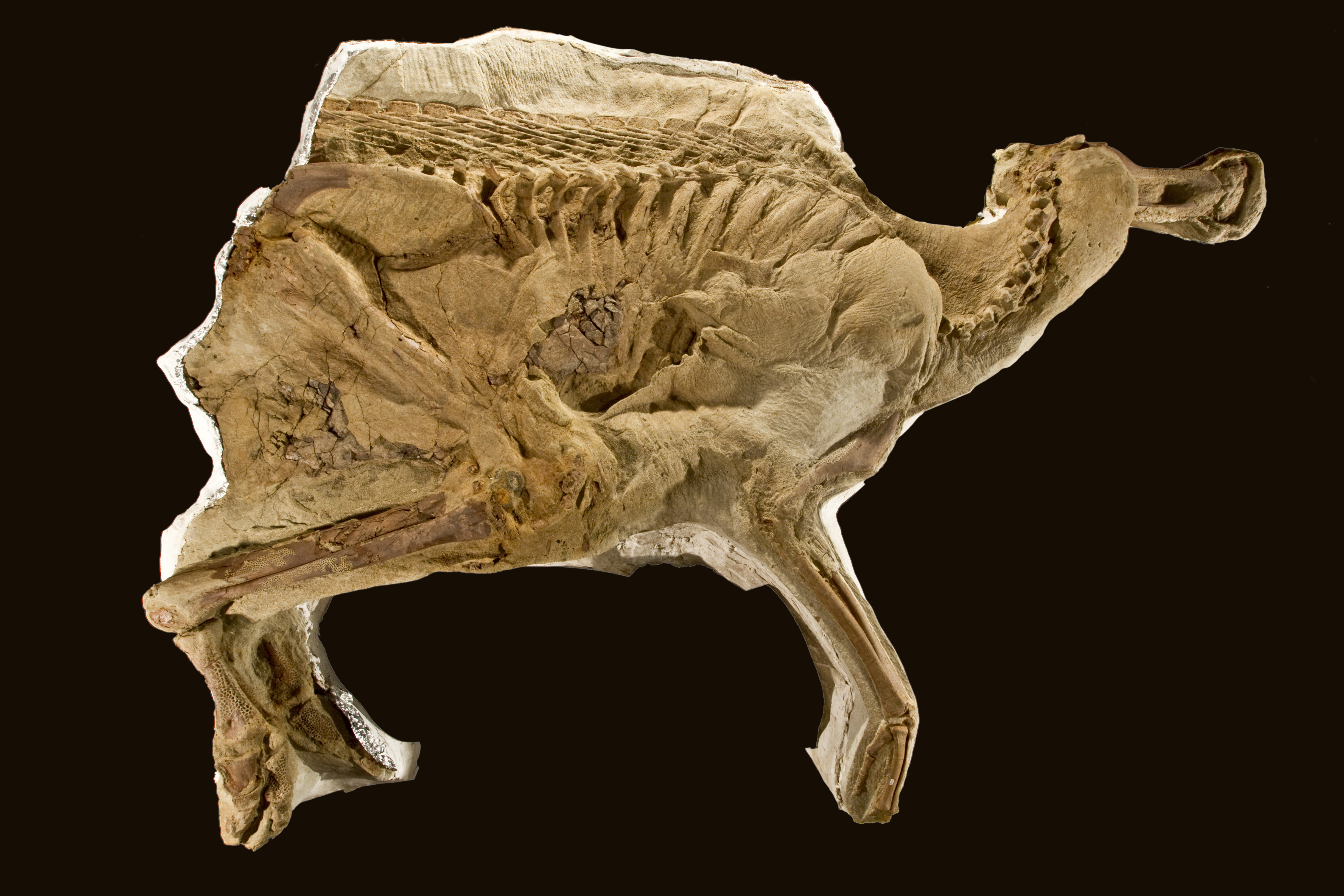 From the permanent collection of The Judith River Foundation, Leonardo, a fully articulated and partially mummified skeleton of a subadult brachylophosaur, is currently on loan to The Children’s Museum of Indianapolis. The fossil is 77 million years old and was discovered in Montana in 2000.